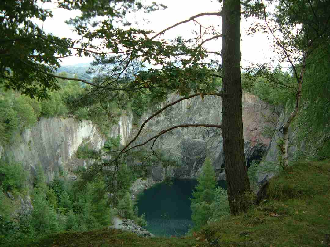 Personal picture taken on 2nd September 2001 by Mick Knapton